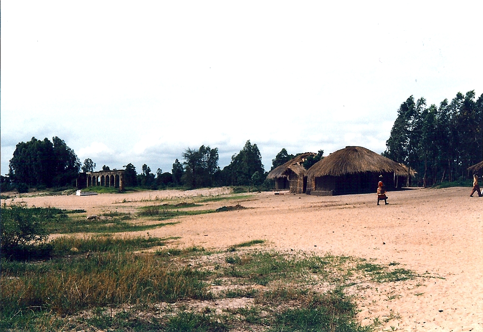 Traditional mud and thatch houses on the beach in Nkhotakota, on Lake Malawi, Malawi. Reed screens are used to give each house a private outdoor area.To the left, a colonnade of arches show the site of a former building (brick house? covered market?). Taken mid-summer 1997 on film.